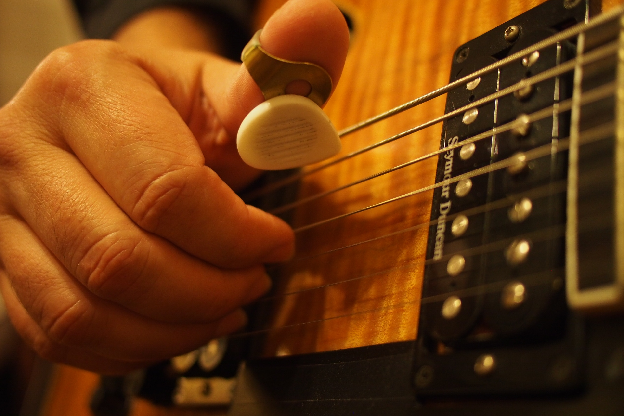 Steve Masakowski's switch pick in action